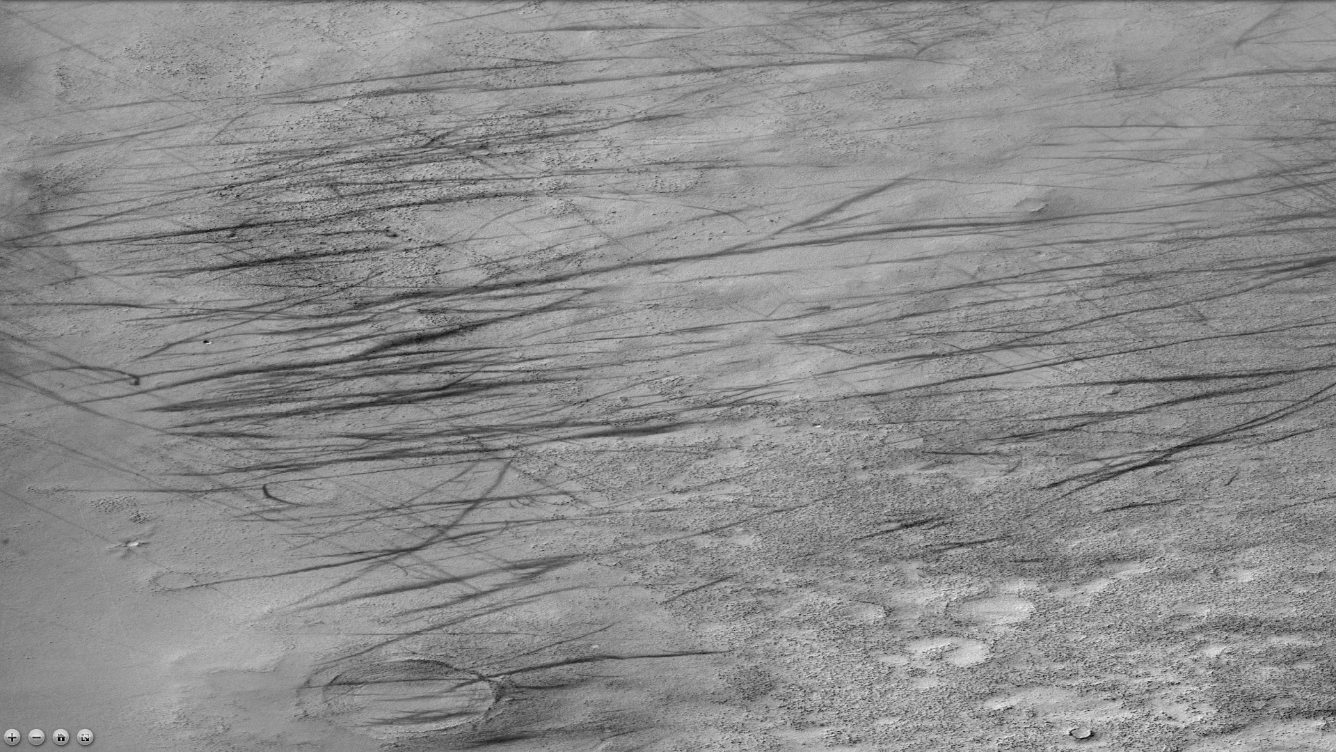 Smith Crater showing dust devil tracks, as seen by ctx